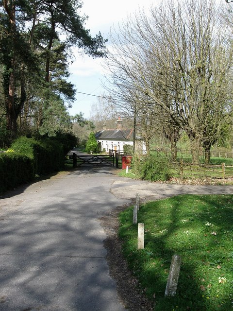 Fittleworth Station